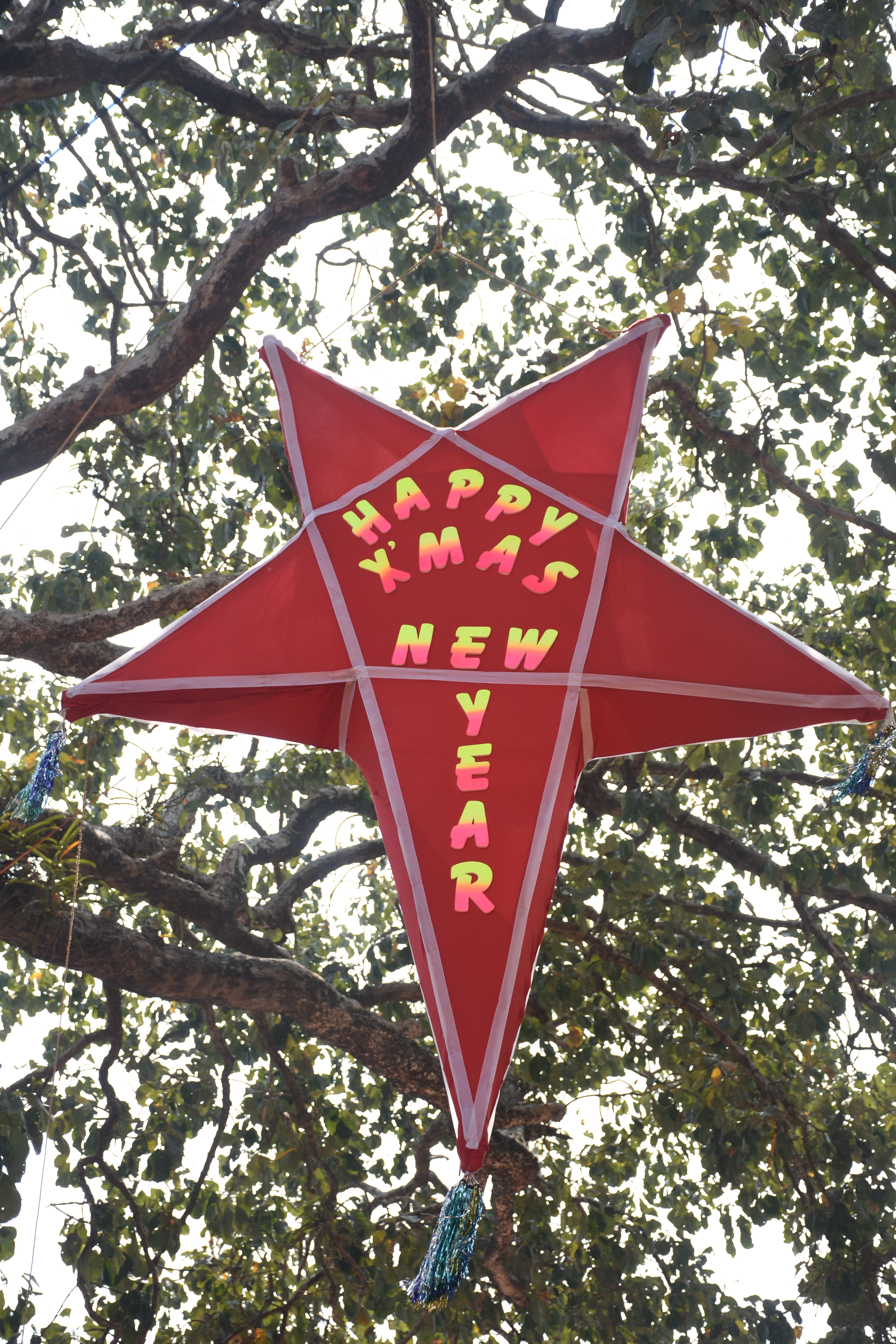 At Gundert Bunglow